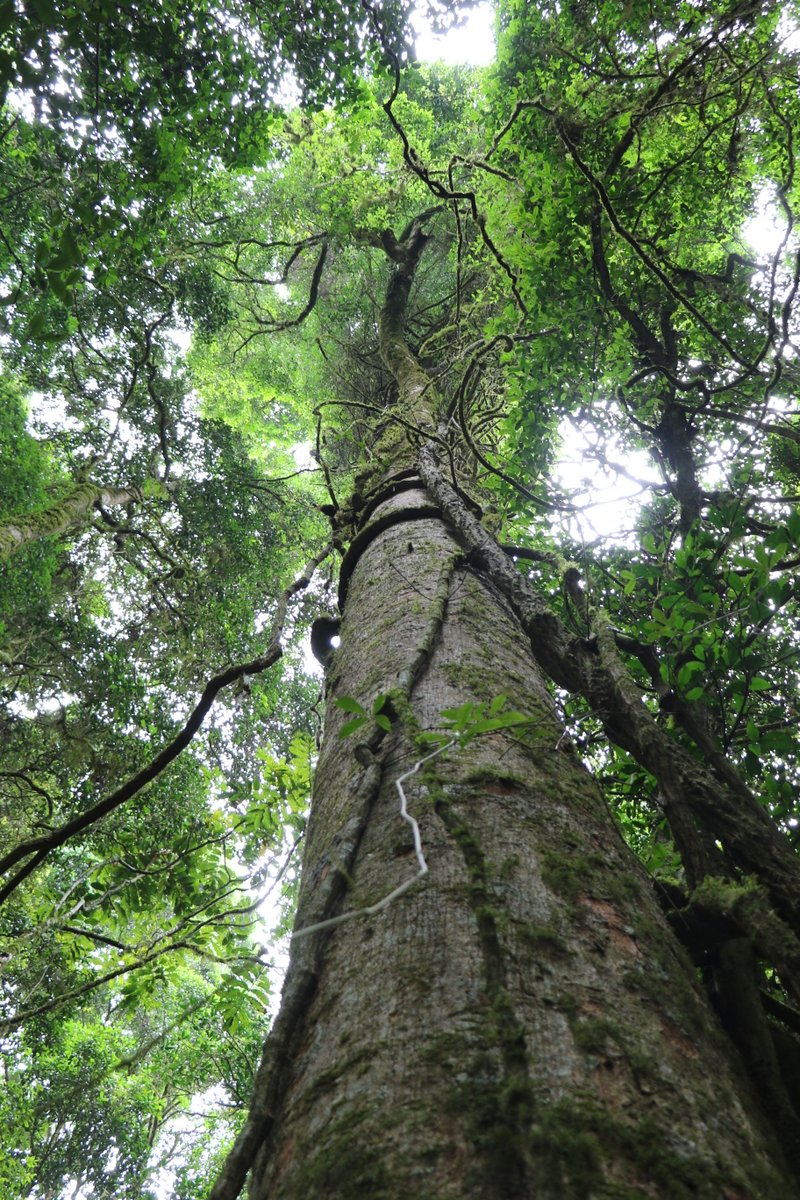 Blush Walnut (Beilschmiedia obtusifolia). Giant tree in excess of 50 metres tall. Tooloom Scrub.